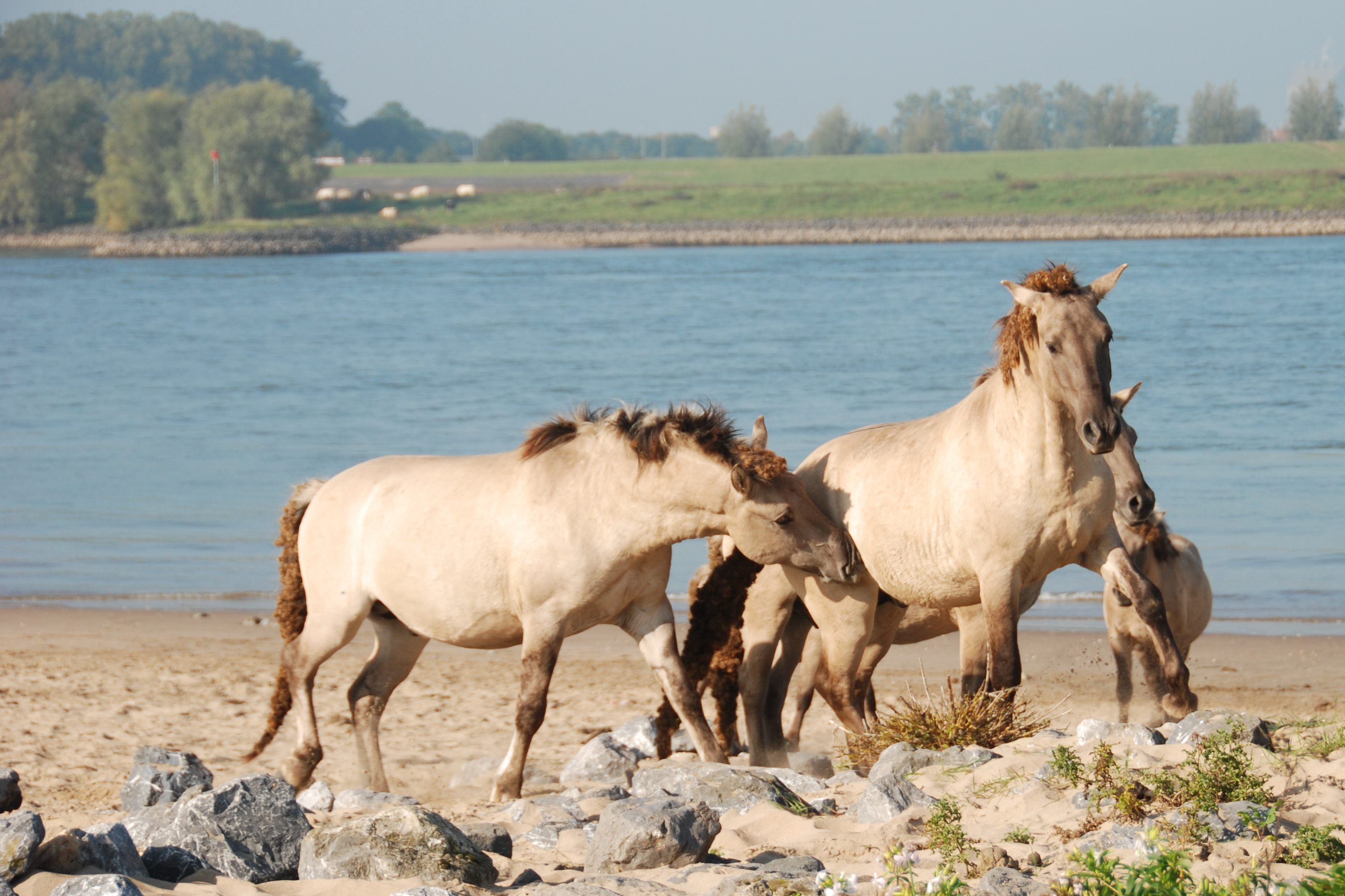 Fighting Konik Horses alang the Waalriver at Nijmegen. Totally covered with sticking seedballs